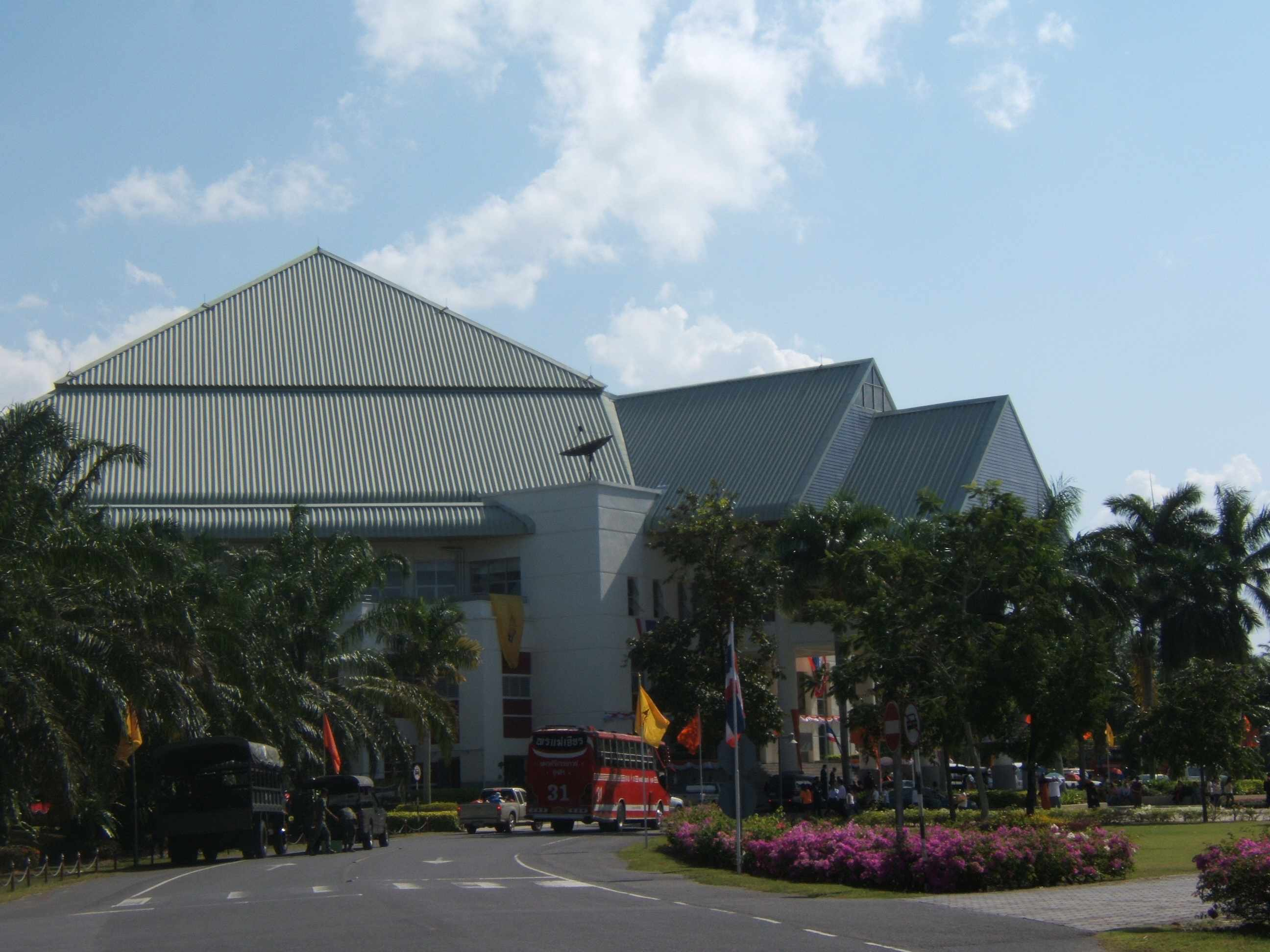 Main Building Walailak University, Nakhon Si Thammarat, Thailand